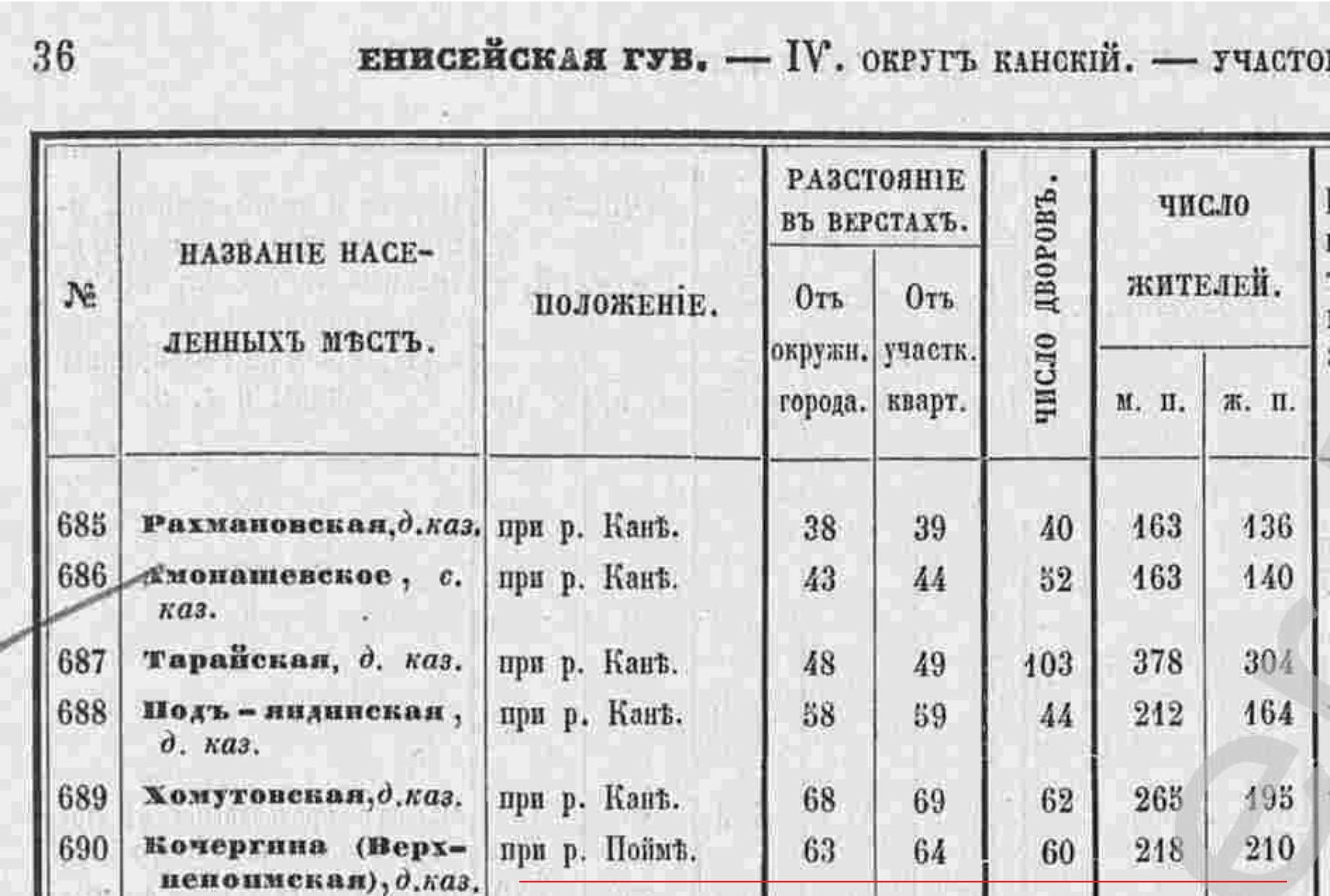 Yenisei province, the list of inhabited places according to the information of 1859.